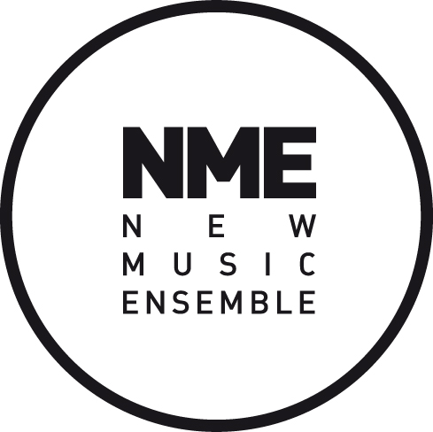 Official logo of the New Music Ensemble (NME)